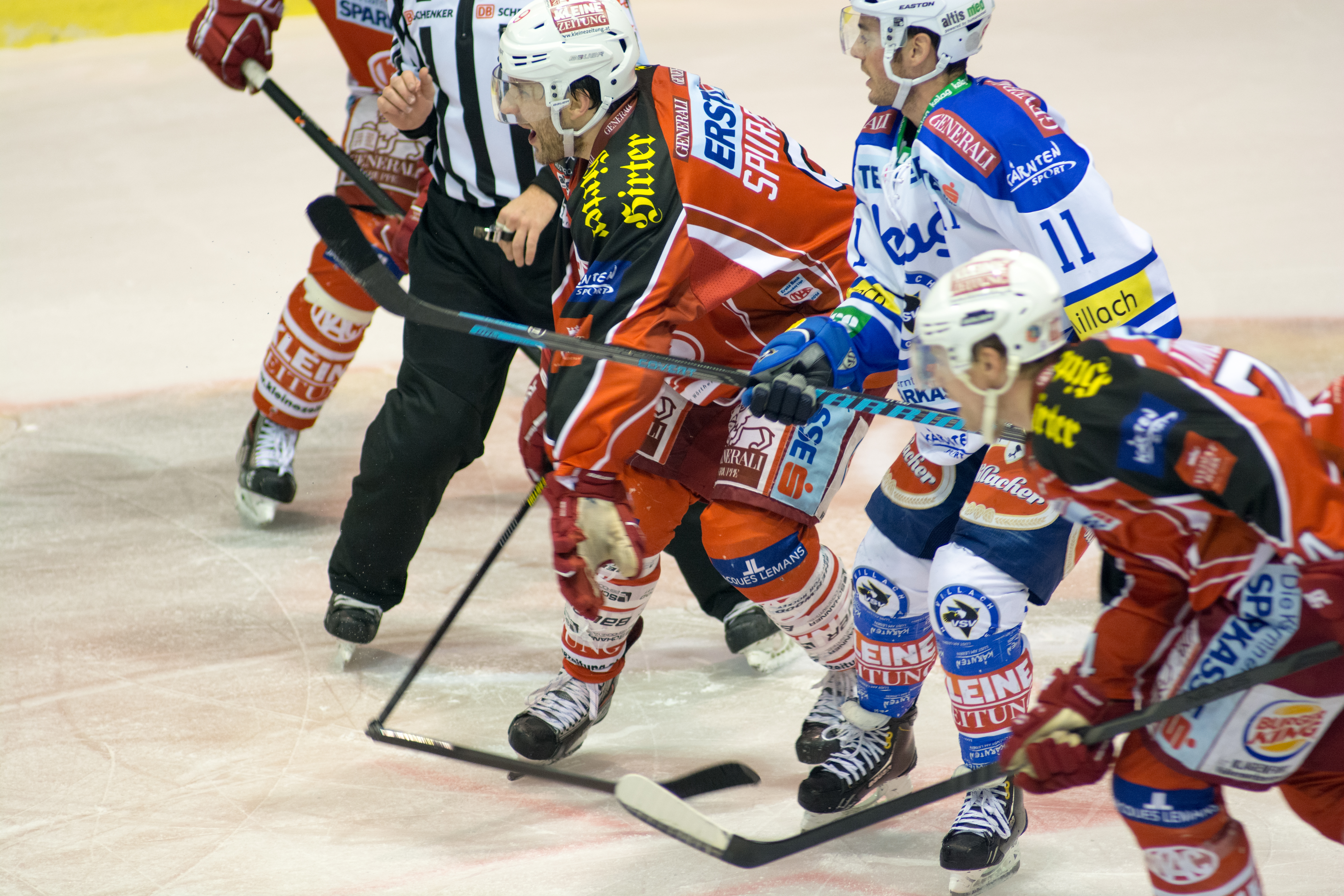 26.12.2013,Messehalle 5 Celovec, AUT, EBEL, 58. Runde, EC KAC vs. EC VSV, im Bild // frostworx Pictures © 2013, PhotoCredit: frostworx / Alex Micheu